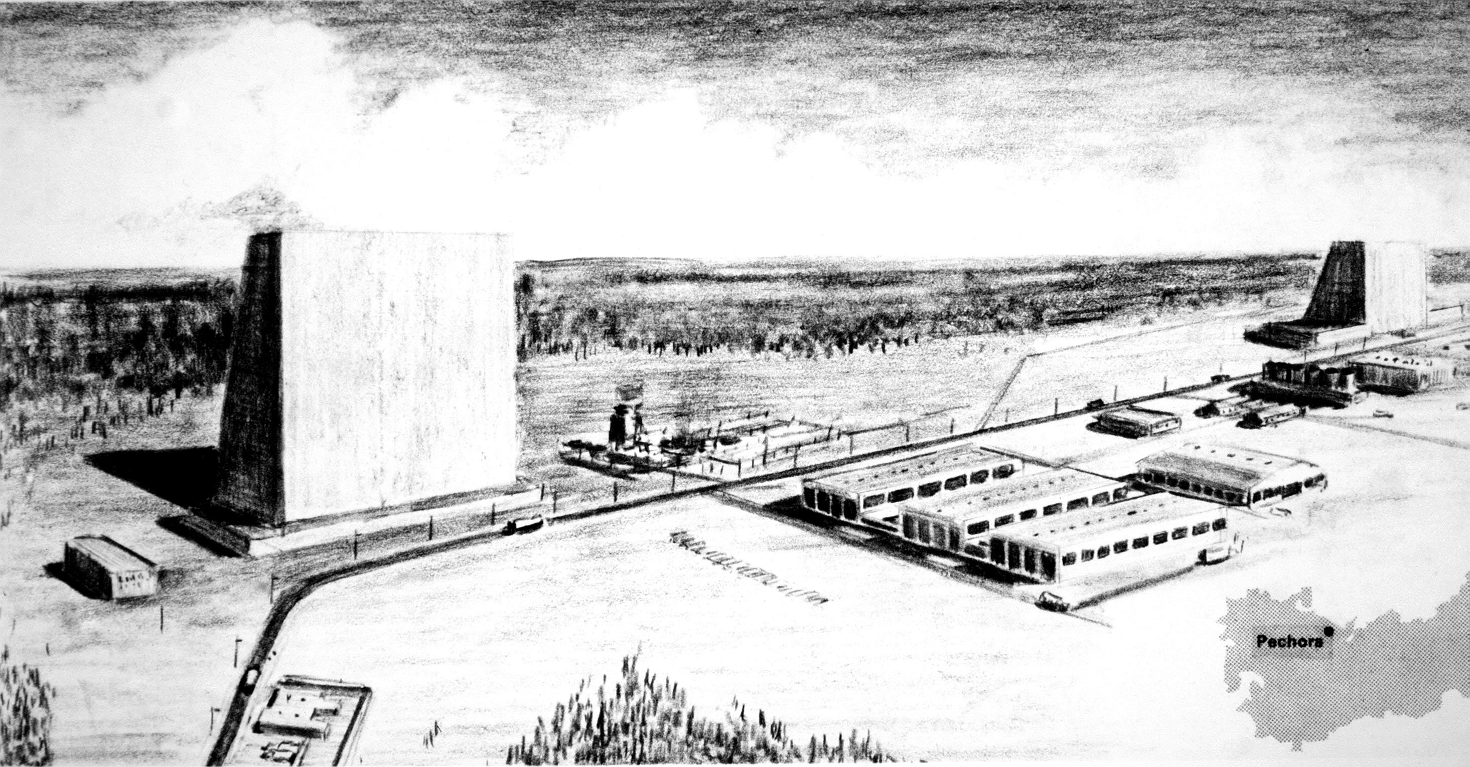 Released to Public - Receiver and Transmitter of Pechora Radar. Courtesy of DEFENSE INTELLIGENCE AGENCY, Soviet Military Power, 1984. Photo No. 27, (Page 34). Daryal radar.